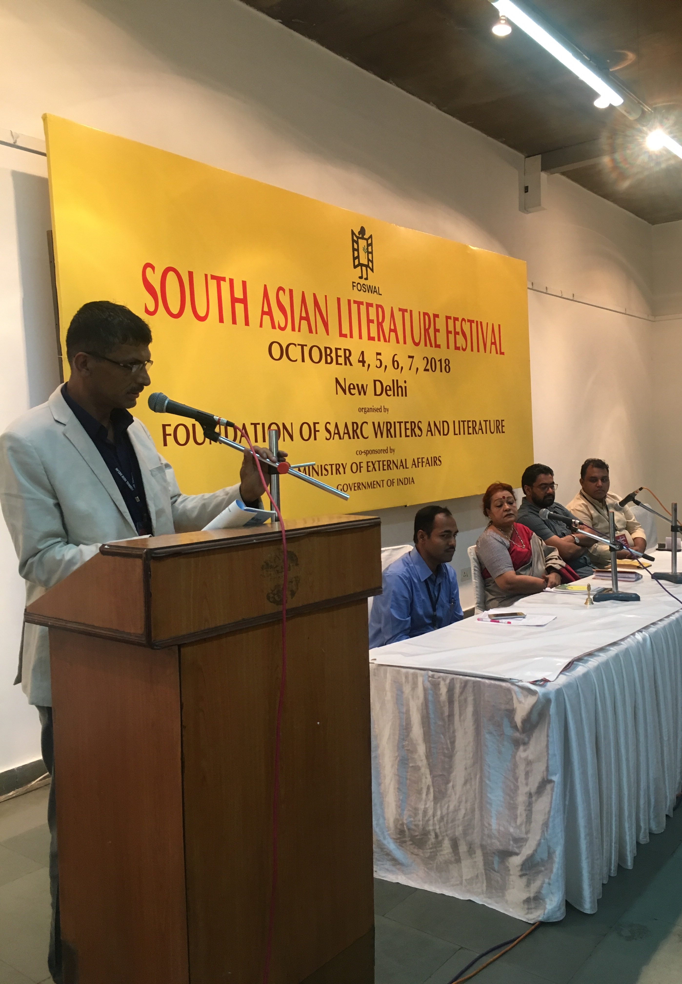 Suman Pokhrel reading his poem in South Asian Literature Festival